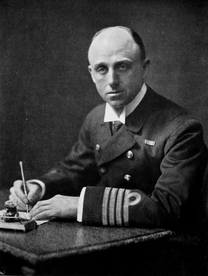 Rear Admiral Sir Robert Arbuthnot, 4th Baronet.23 March 1864 -31 May 1916 wearing uniform of a captain. Original caption read "Rear-Admiral Sir Robert Keith Arbuthnot. K.C.B., M.V.O., fourth Baronet, killed at the battle of Jutland, 1st May, 1916."